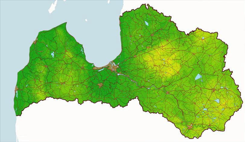 Physical geography map, Latvia.